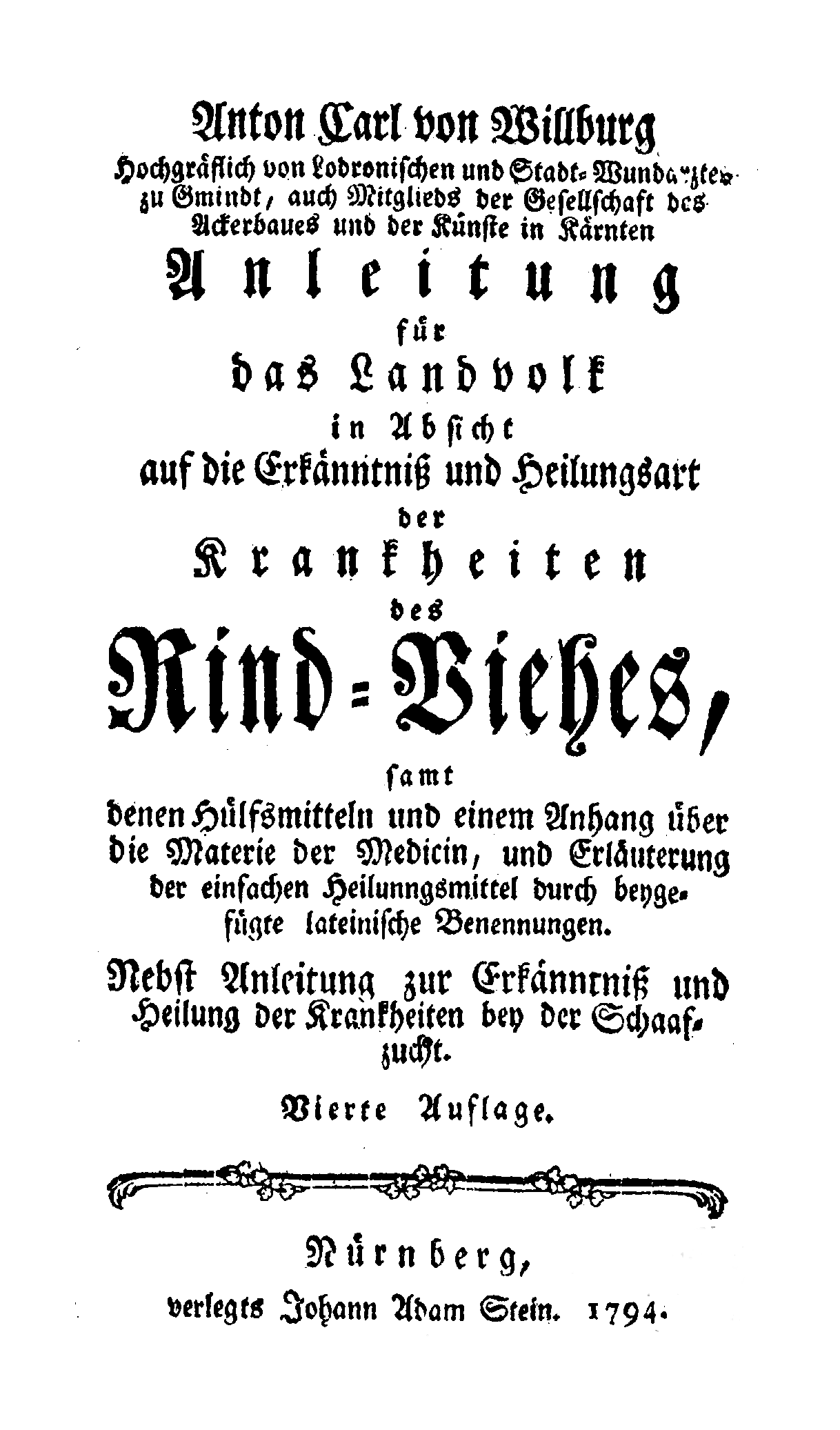 Title page of the book "Anleitung für das Landvolk in Absicht auf die Erkänntniß und Heilungsart der Krankheiten des Rind-Viehes: samt den Hülfsmitteln und einem Anhang über die Materie der Medicin, und Erläuterung der einfachen Heilungsmittel durch beygefügte lateinische Benennungen: nebst Anleitung zur Erkänntniß und Heilung der Krankheiten bey der Schaafzucht"